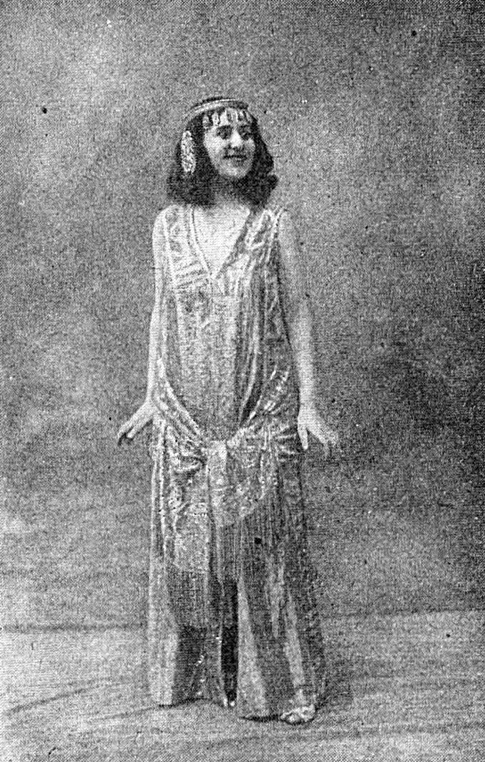 Mariotte - Salomé - Mlle de Wailly 2 from Comœdia illustré, 15 December 1908